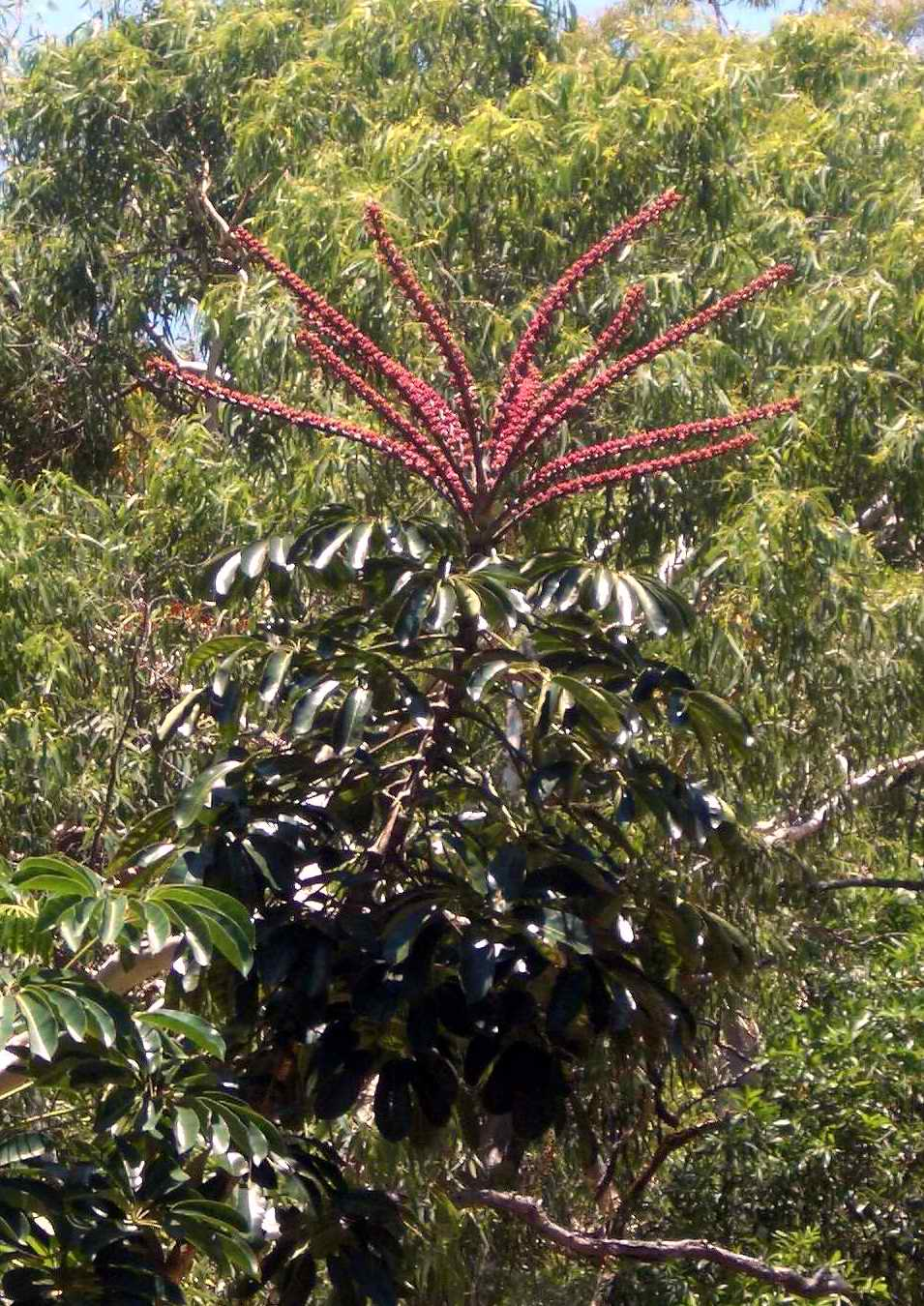 I took this photo myself in Cooktown Botanic Gardens. November, 2006 John Hill 07:32, 20 November 2006 (UTC)